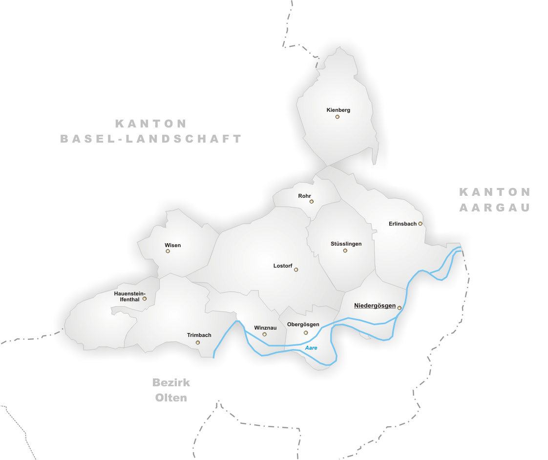 Municipalities of District Gösgen from 2006